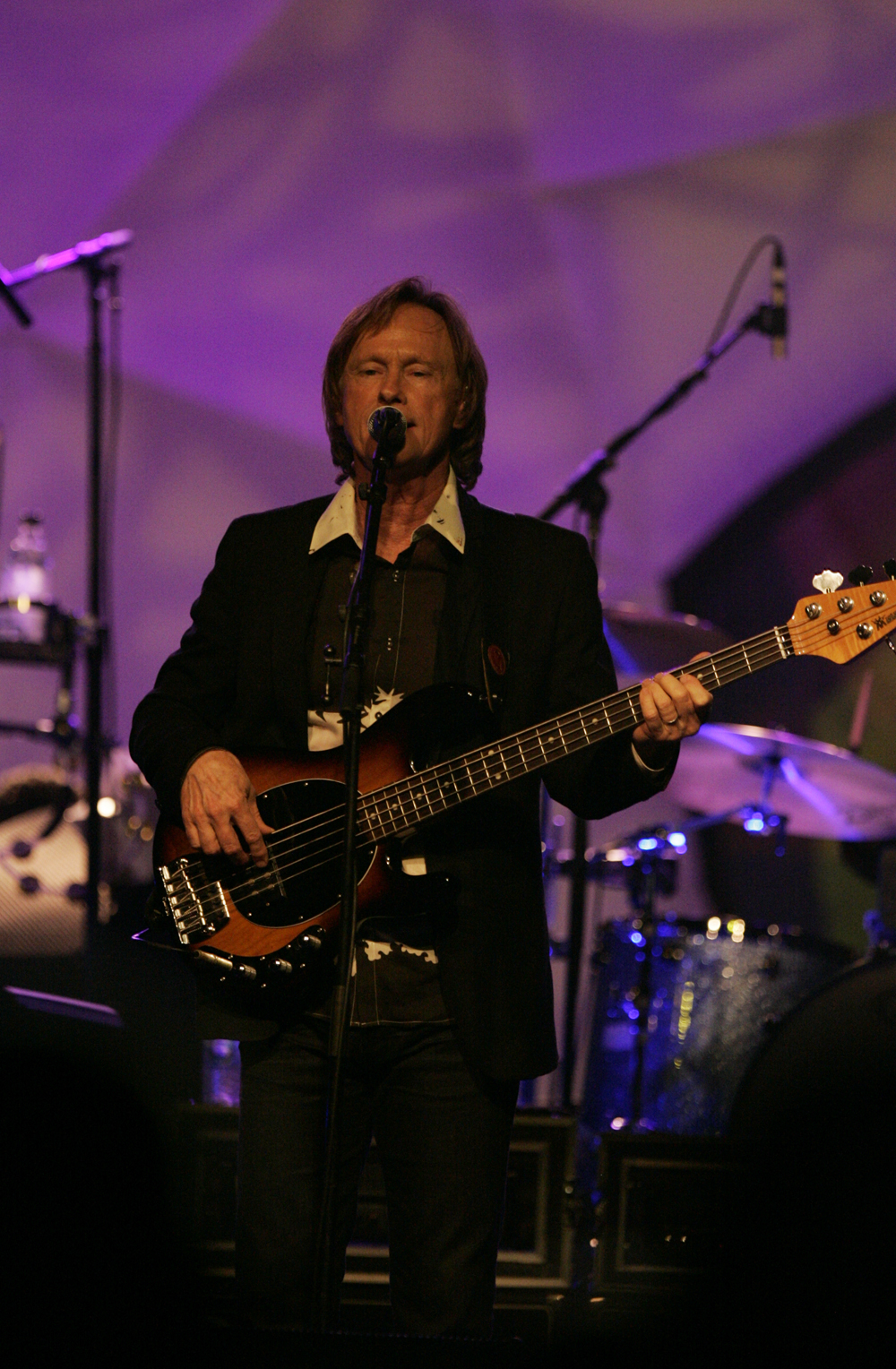 Ringo Starr and his All-Starr Band play the Hordern Pavilion in Sydney, Australia.